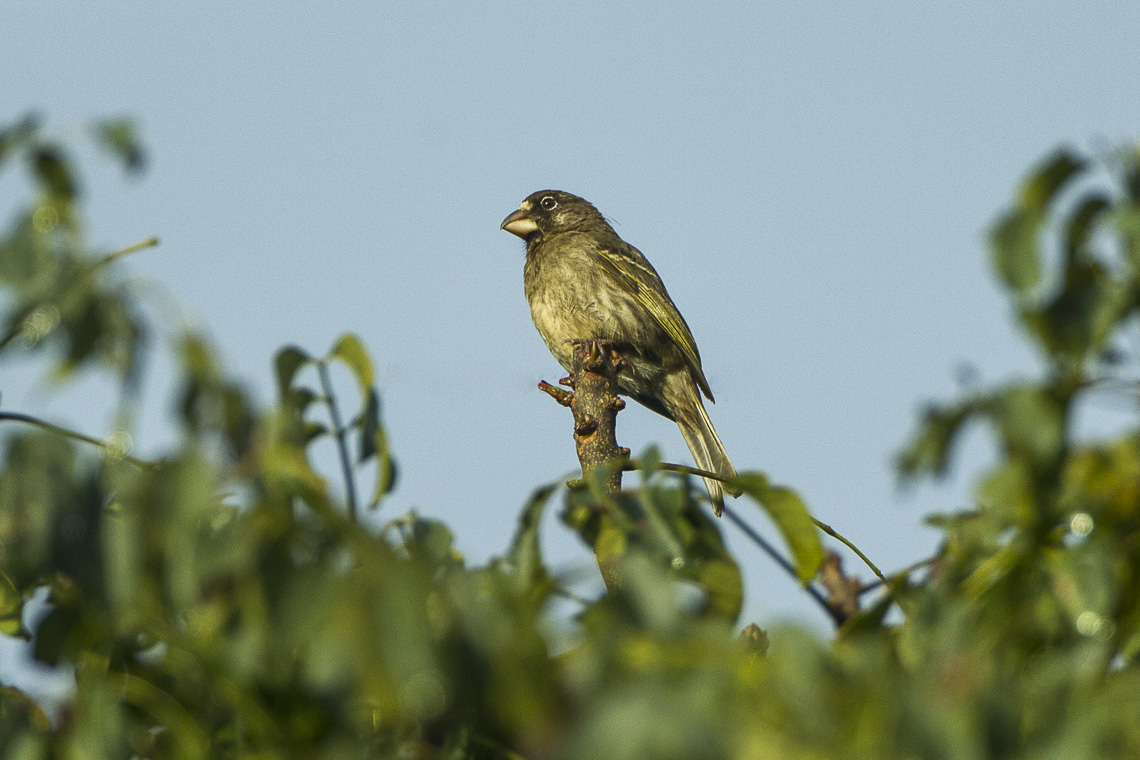 Thick-billed Seedeater (Crithagra burtoni), Kenya